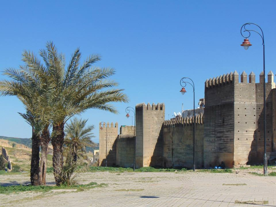 city wall fes